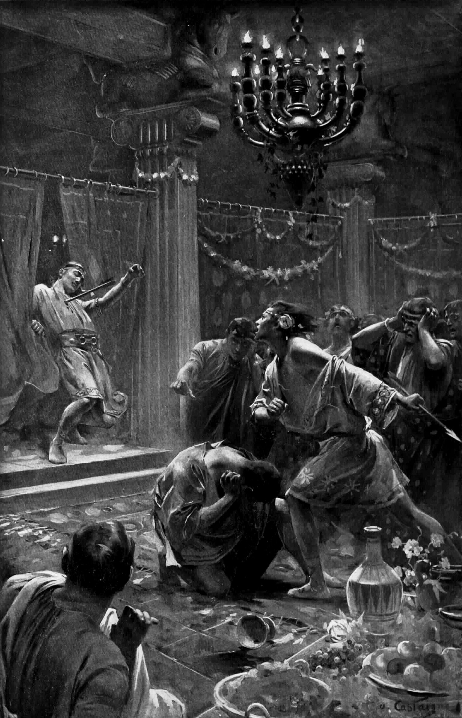 The killing of Cleitus by Alexander the Great.